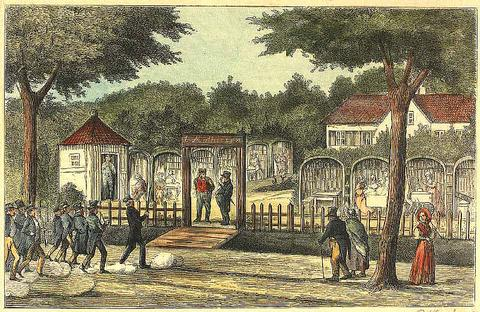 Students arriving at Lars Mathiesen's establishment Håbet at Allégade 7 outside Copenhagen, Denmark. 1874.